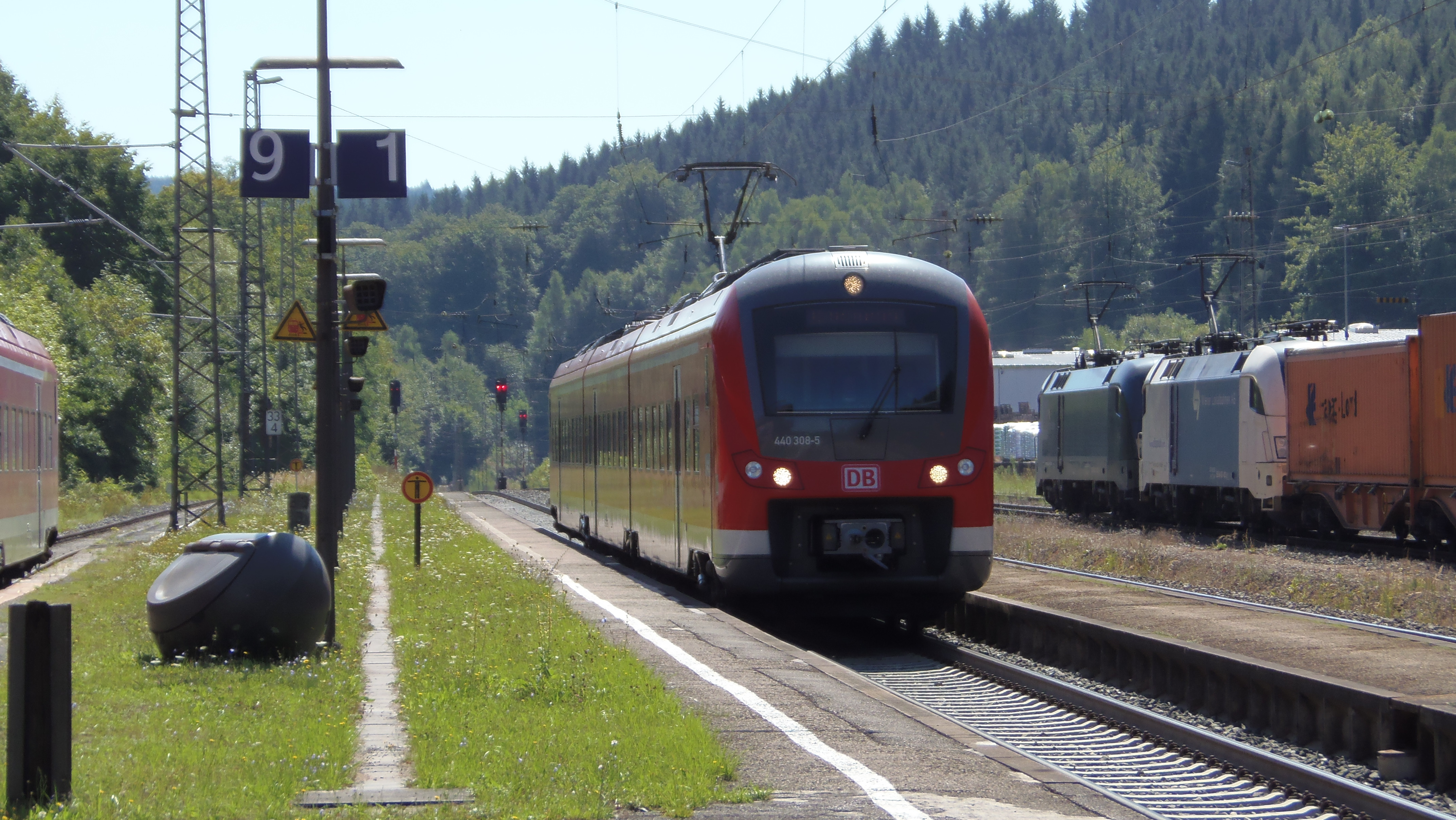 Regional train and freighttrain in Jossa